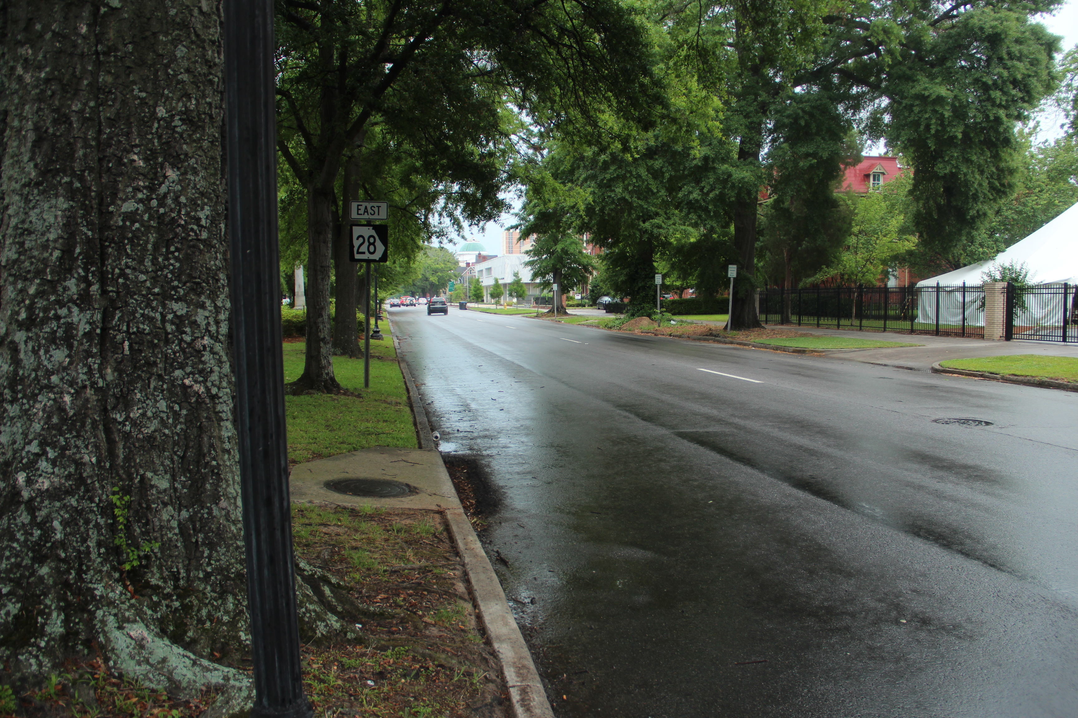 Greene Street (GA SR 28) in Augusta, May 2017